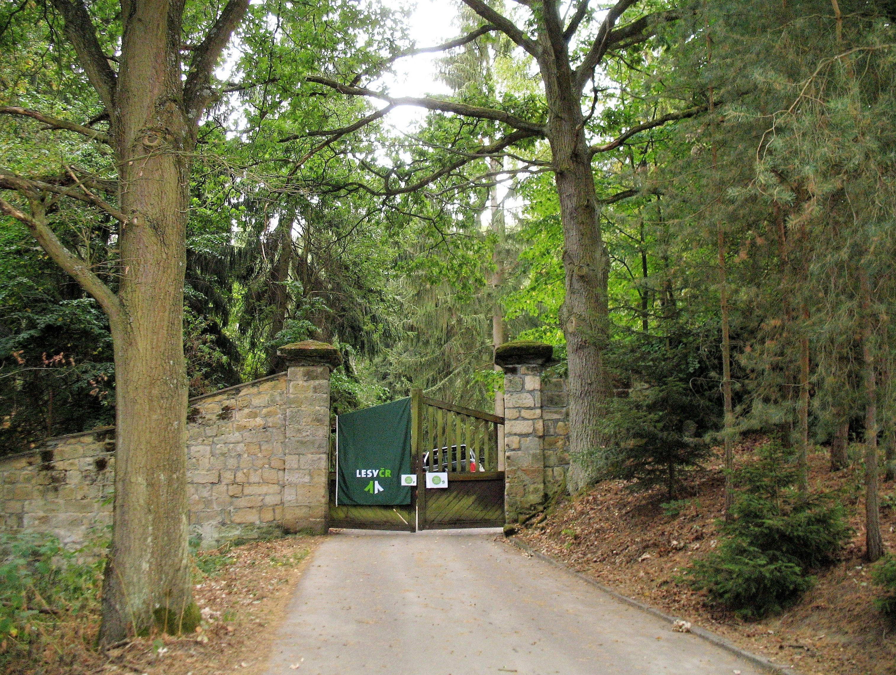 Deer Park Vřísek near Zahrádky (Česká Lípa District), Northern Bohemia